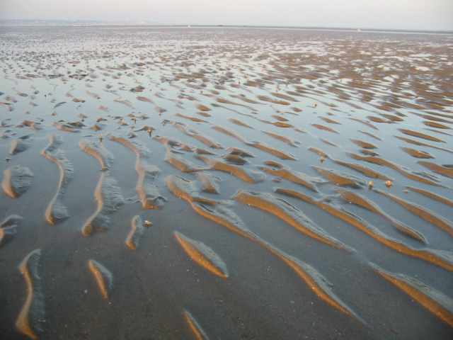 Sand ridges on Sandwich Flats at low tide There are a limited number of features to photograph on Sandwich Flats